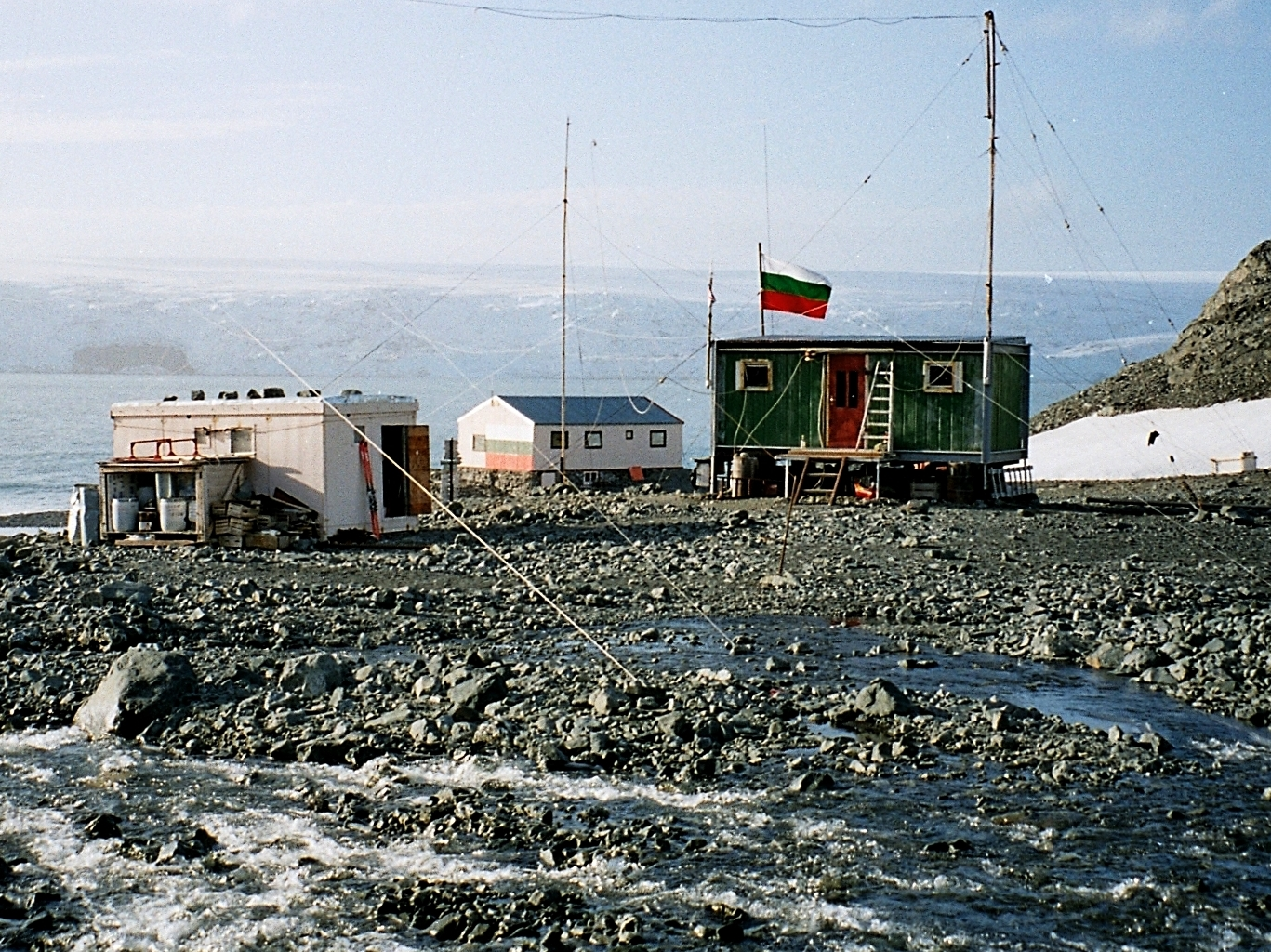 The Bulgarian base St. Kliment Ohridski on Livingston Island, Antarctica in 2003, with Lame Dog Hut on the right, Russian Hut on the left, and the new main building in the background.